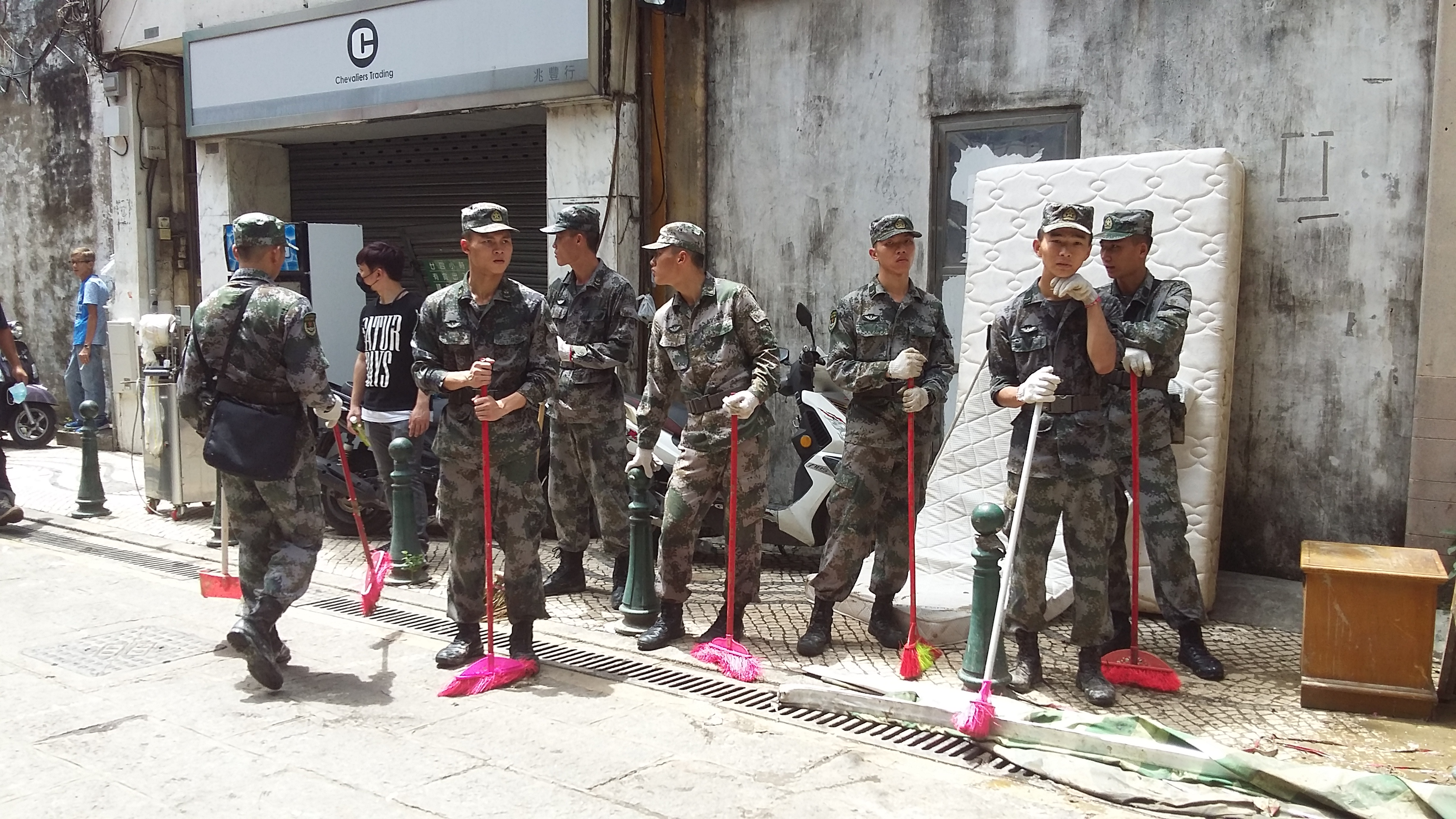 Second day after the storm, at Freguesia da Sé. PLA cleaning the streets.